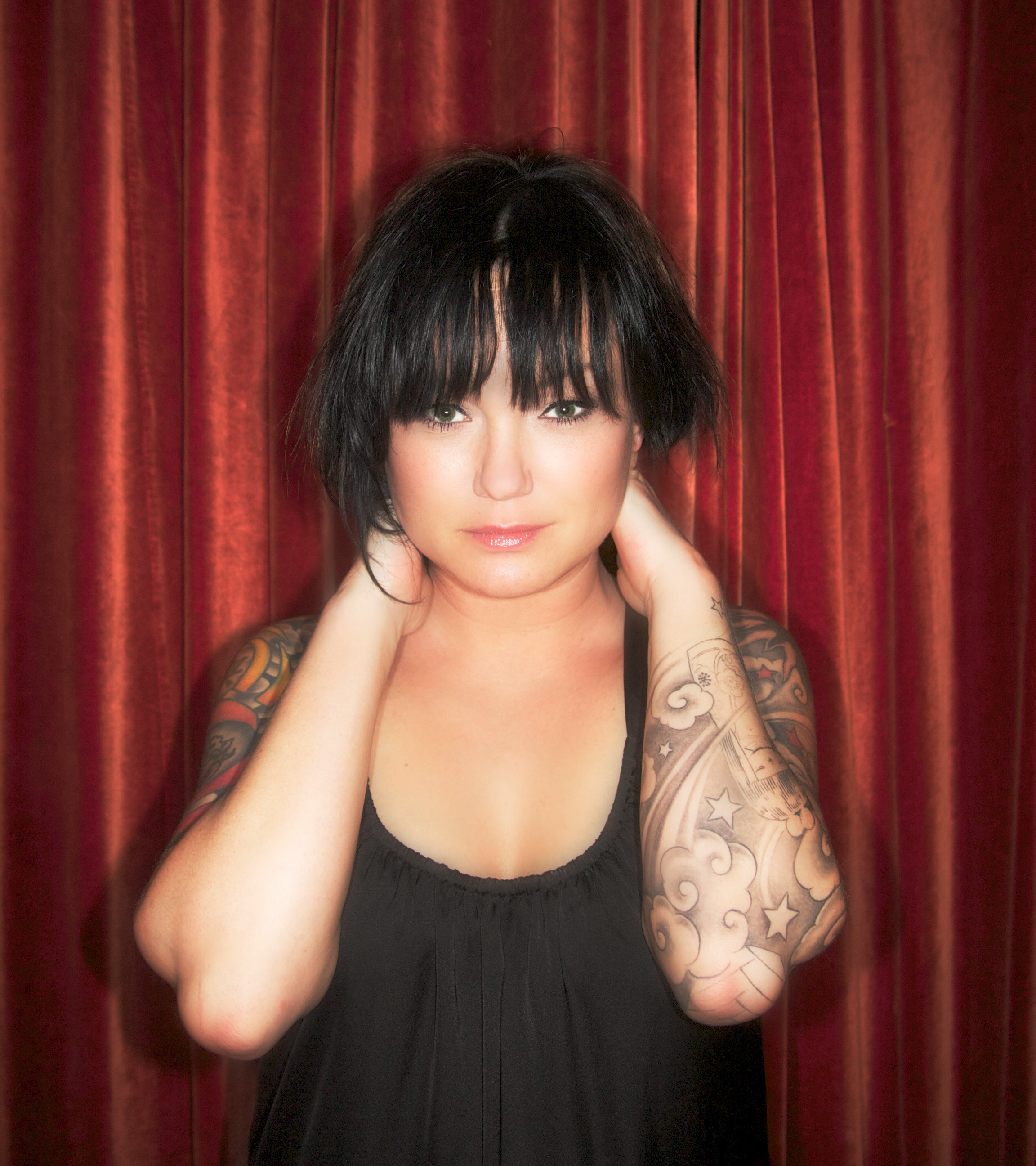 Sara Löfgren in 2011